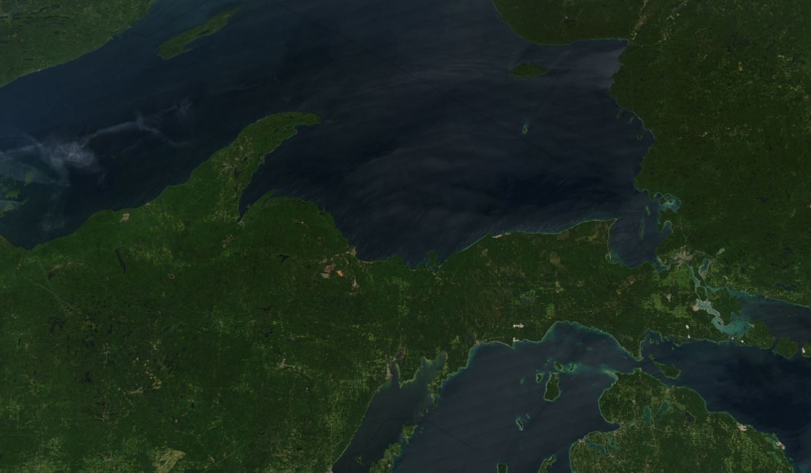 Upper peninsula